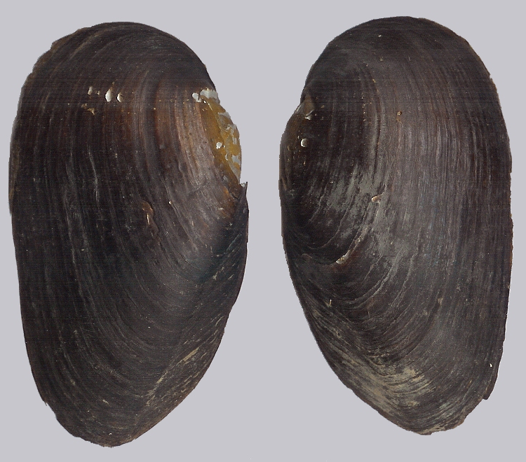 Margaritifera, double valved specimen, outside, length 108 mm.; Teisnach, Germany, 1964